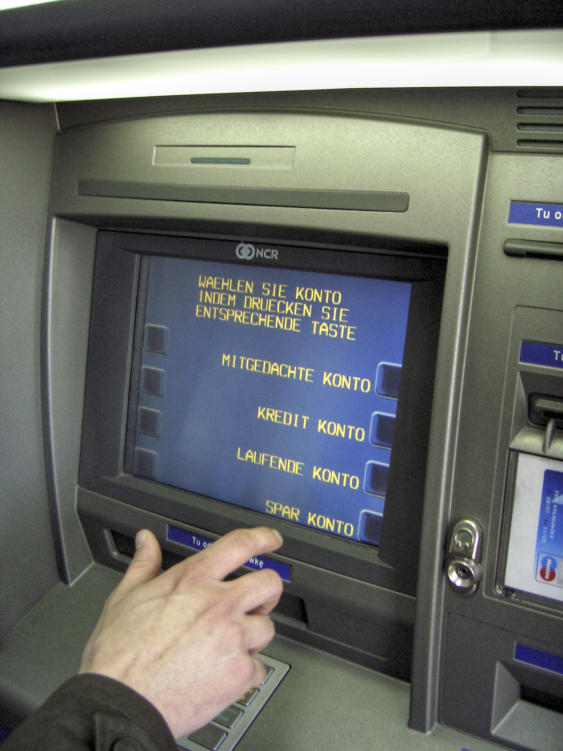 Automated teller machine (ATM) produced by NCR